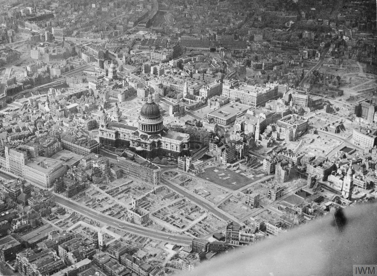 Bomb Damage in London, England, April 1945 Aerial view of the City of London around St Paul's Cathedral from the south-east in which the extent of bomb damage is clearly visible.